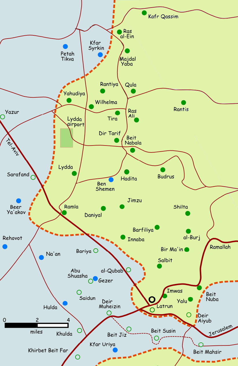 The area of Lydda - Ramla - Latrun with the Burma road on 9 July 1948, before the Operation DaniWork based on Benny Morris, 1948: A History of the First Arab-Israeli War, Yale University Press, 2008, p.288.